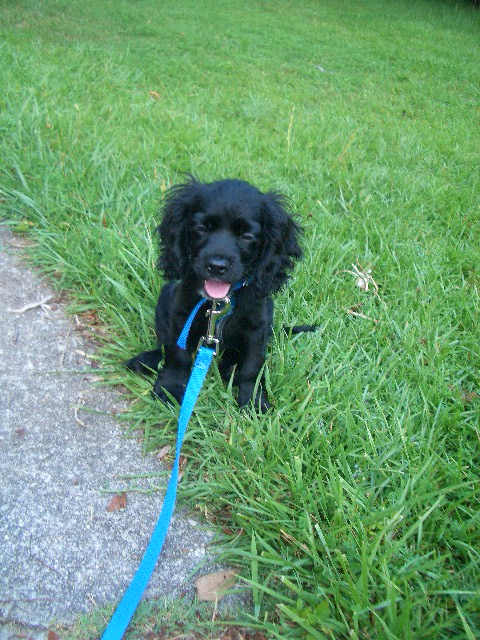 cockalier